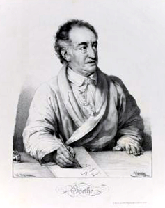 Johann Wolfgang von Goethe. Engraved 1826 by Henri Grevedon after Orest Kiprensky (1823), published by C. Motte for Ch. Picquet, Paris. Blattgröße 36:29 cm. Thieme/B. XX, 343 ff. (unter Kiprenskij: "1823 in Karlsbad, auf der Rückreise von Italien nach Petersburg, nach der Natur ausgeführt") u. XV, 15 (G.).